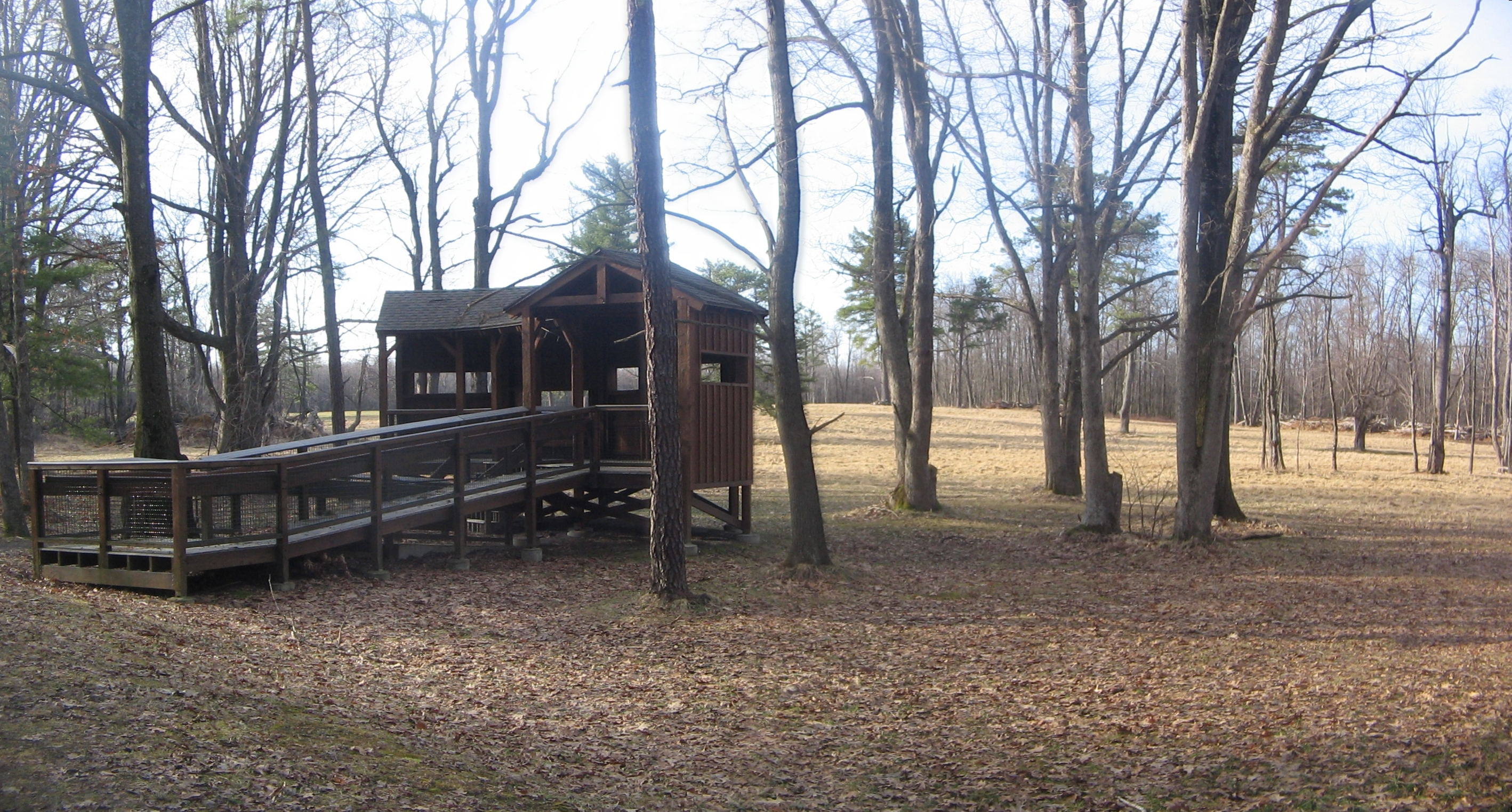 Viewing bling and feeding plots in Hoover Farm Wildlife Viewing Area in Quehanna Wild Area, Pennsylvania, USA.